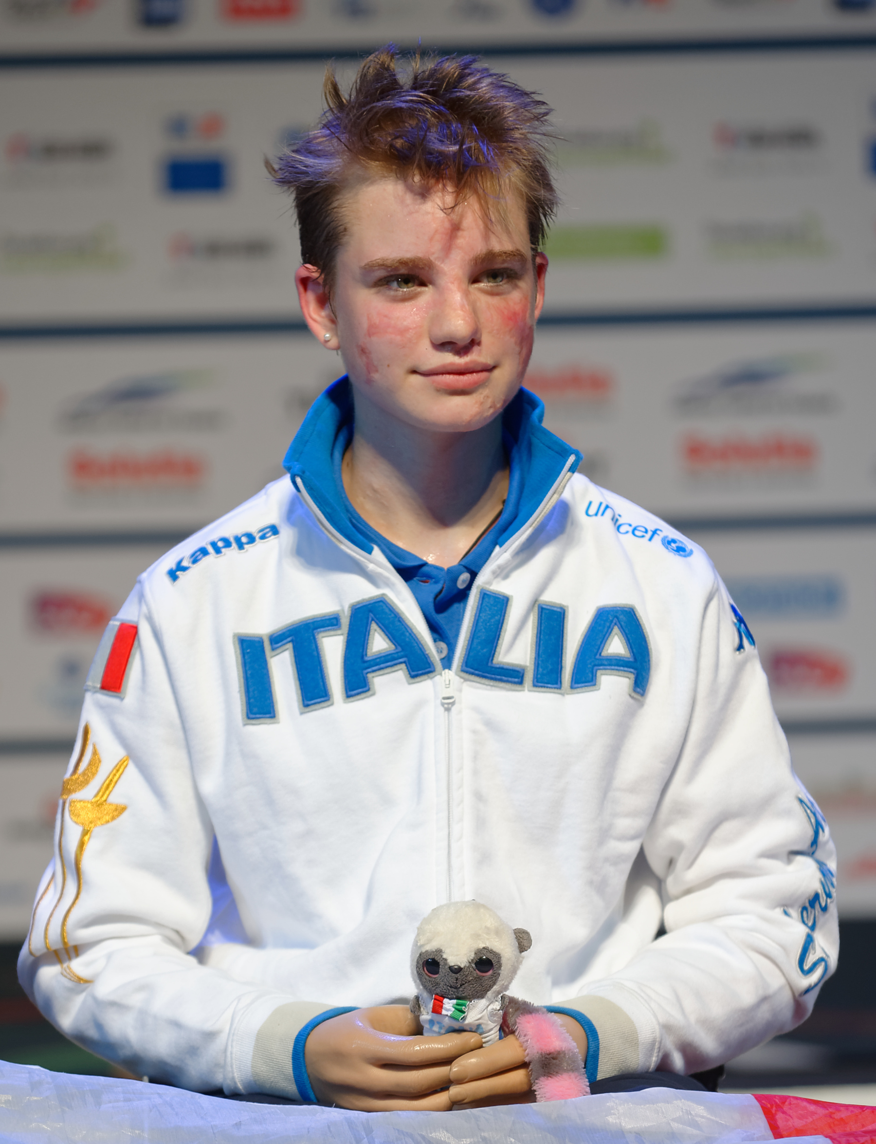 Beatrice Vio of Italy on the podium for women's team foil in the European Wheelchair Fencing Championships at Rhénus Sport in Strasbourg on 12 June 2014.